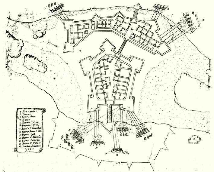 Battle of Nagykanizsa, 1664